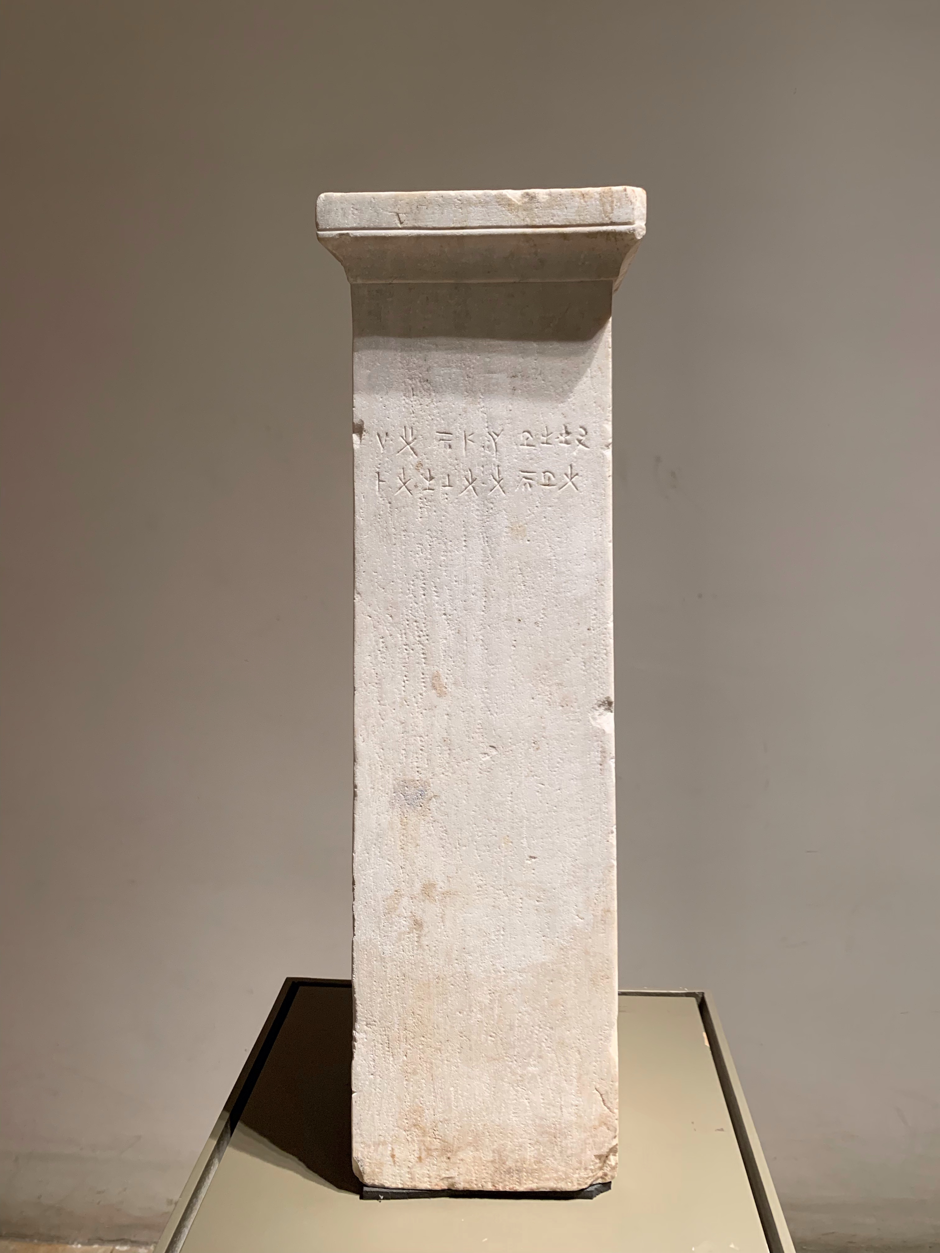 National Museum of Beirut – Cypriot syllabary (Paphian) Eshmun temple 5th-4th c bce